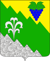 Coat of arms of Nizhnebakanskaya, Krasnodar Krai